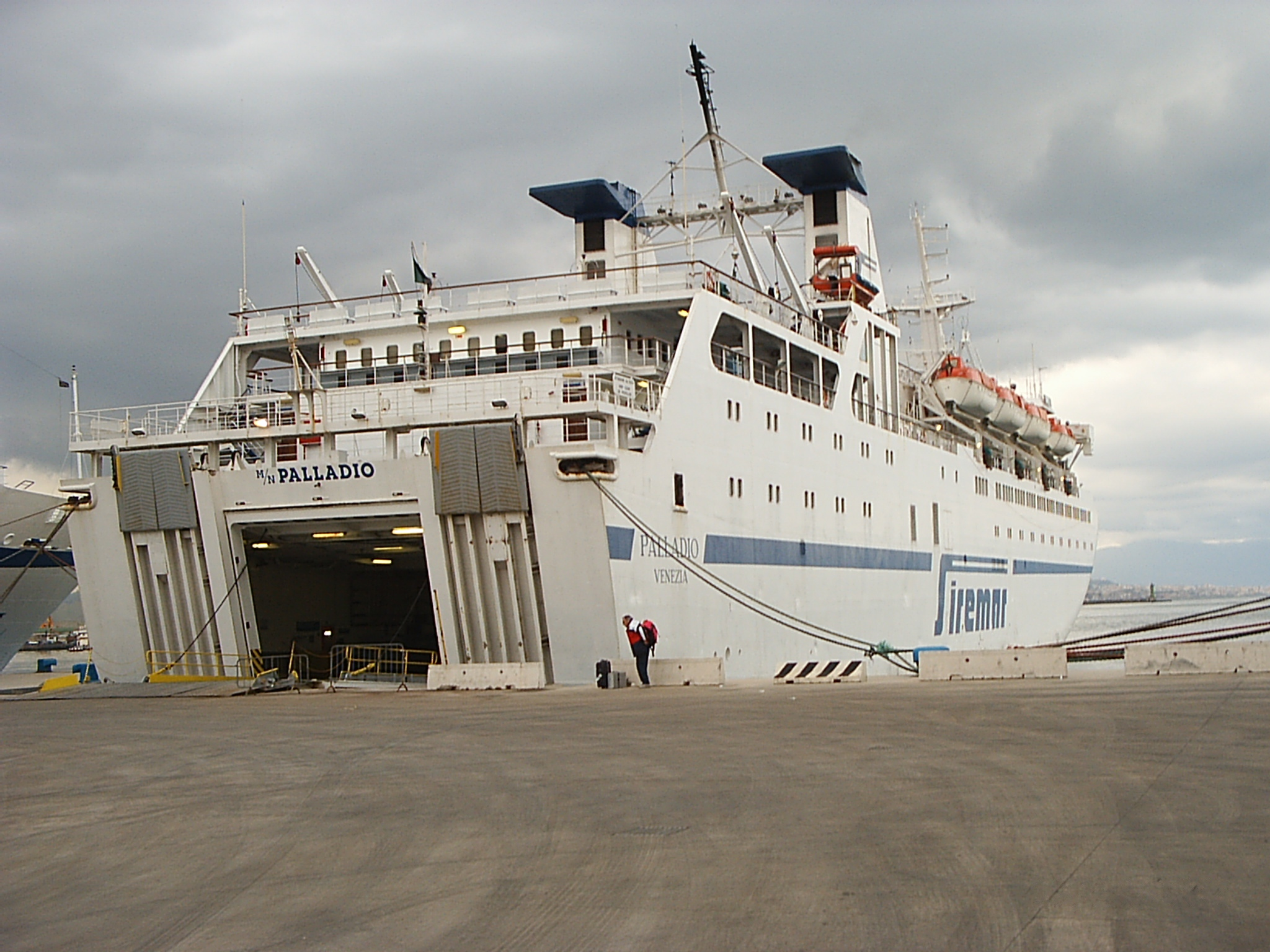 MS Palladio to Naples harbour